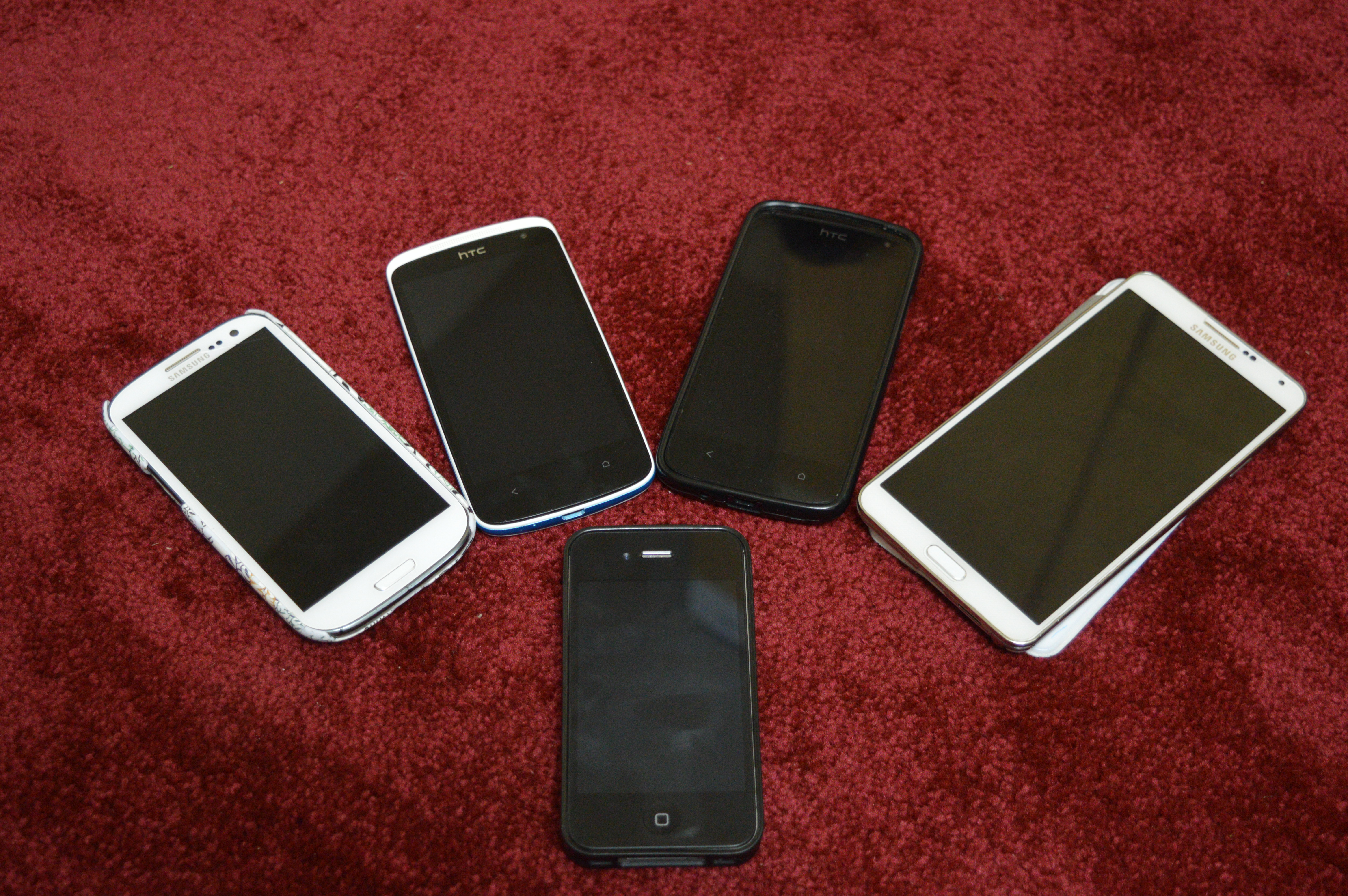 A picture of 5 different Smartphones. 1. Samsung Galaxy S III 2,3. HTC Desire 500 Dual Sim 4. Samsung Galaxy Note 3 5. iPhone 4s